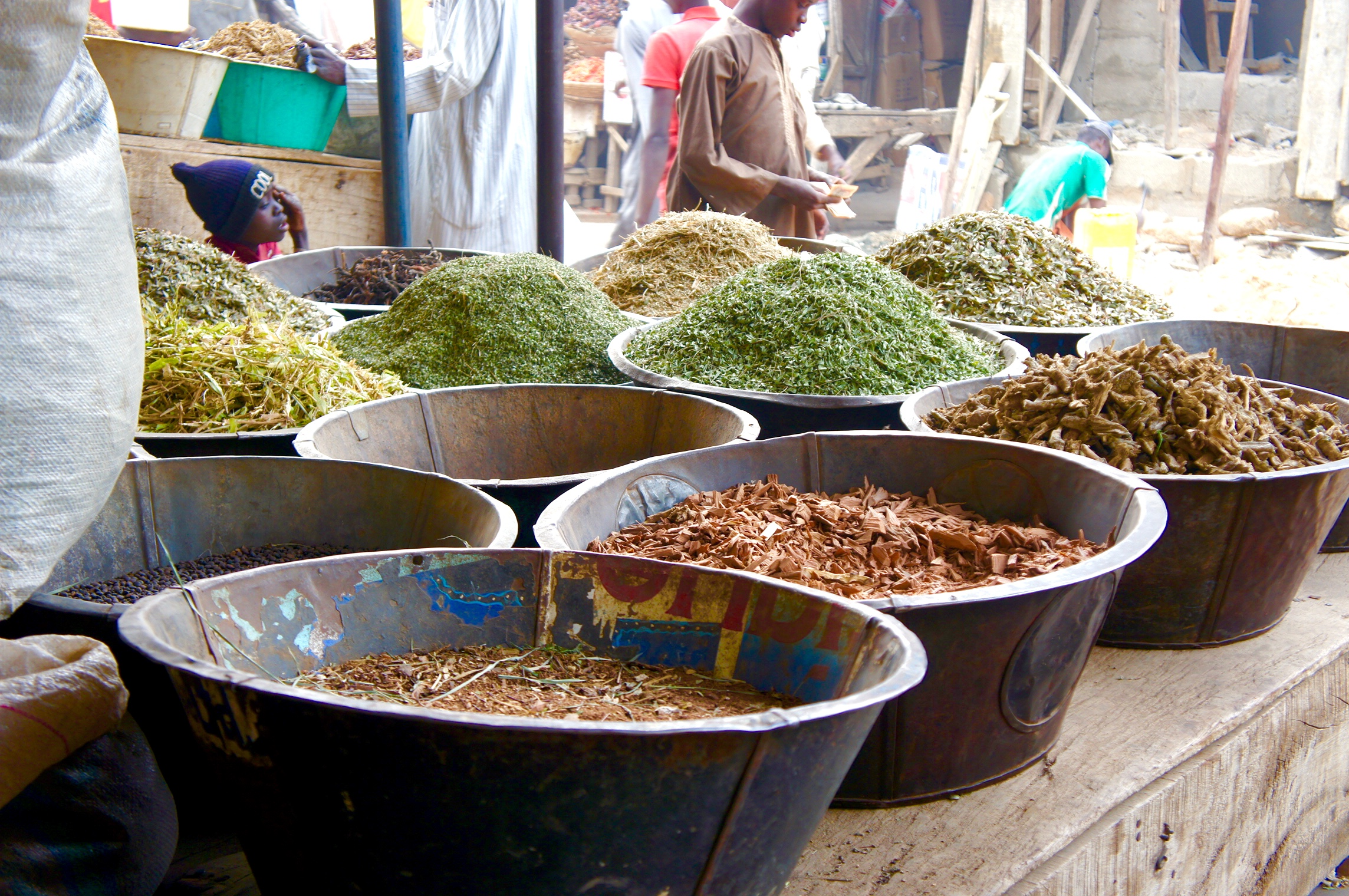 Dried Sandalwood and other dried barks and leaves used for incense making and other medicinal purposes in Kurmi Market of Kano This is an image from Nigeria